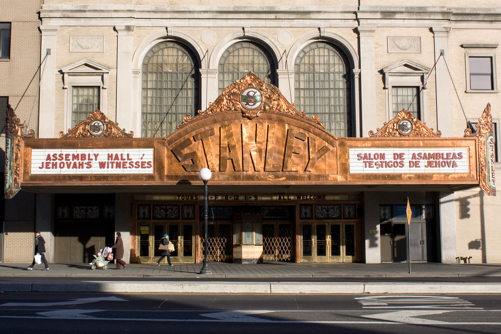 Wikipedia Loves Art at the Film Society of Lincoln Center This photo of Stanley Theater (Jersey City) supported by the Film Society of Lincoln Center was contributed under the team name "The_Grotto" as part of the Wikipedia Loves Art project in February 2009. The original photograph on Flickr was taken by robertsmyth2600—please add a comment to the original Flickr page whenever a use has been made on Wikipedia or another project. Project galleries on Flickr: this institution, this team